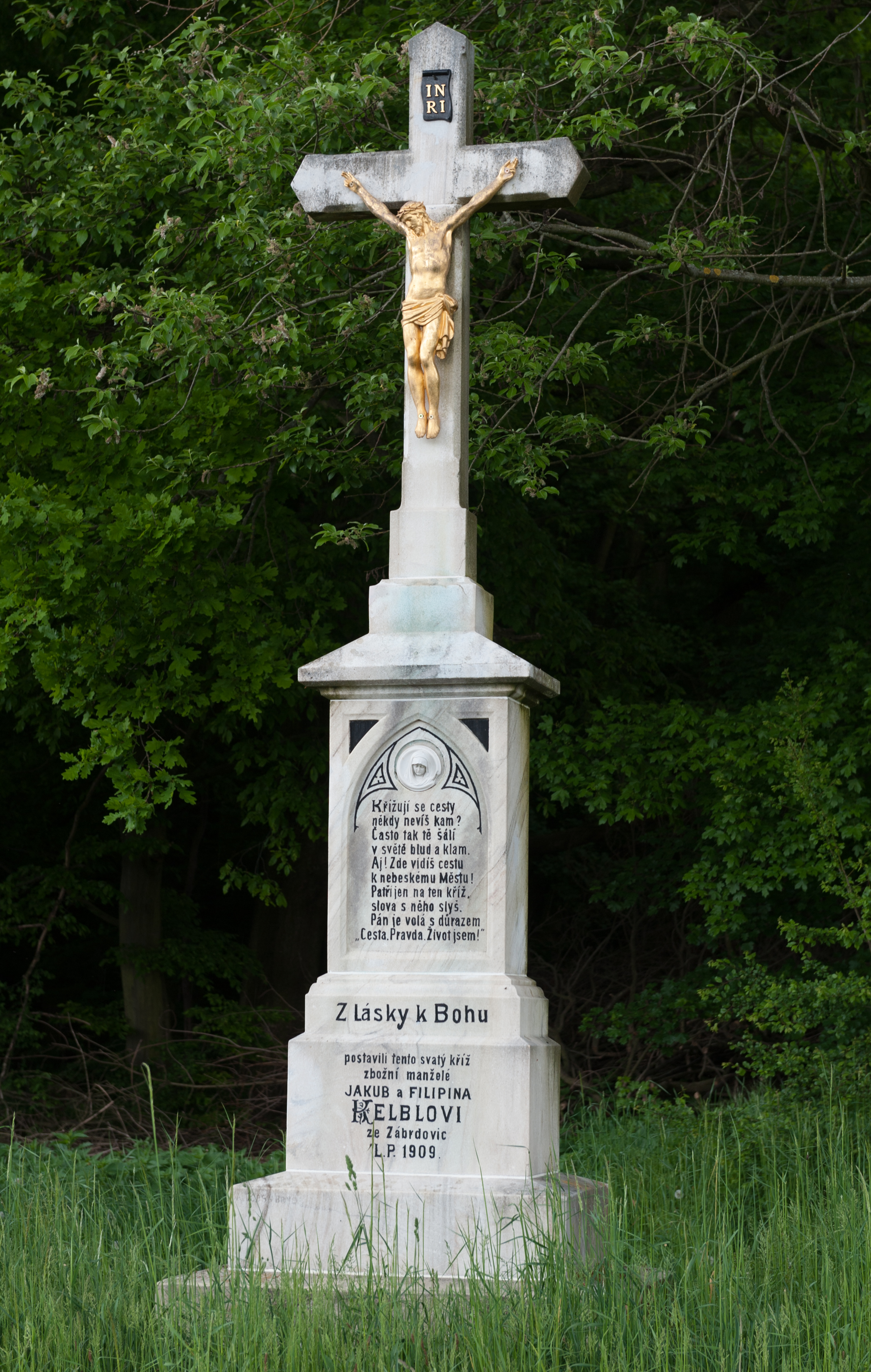 Wikitown Hustopeče: Vedrovice